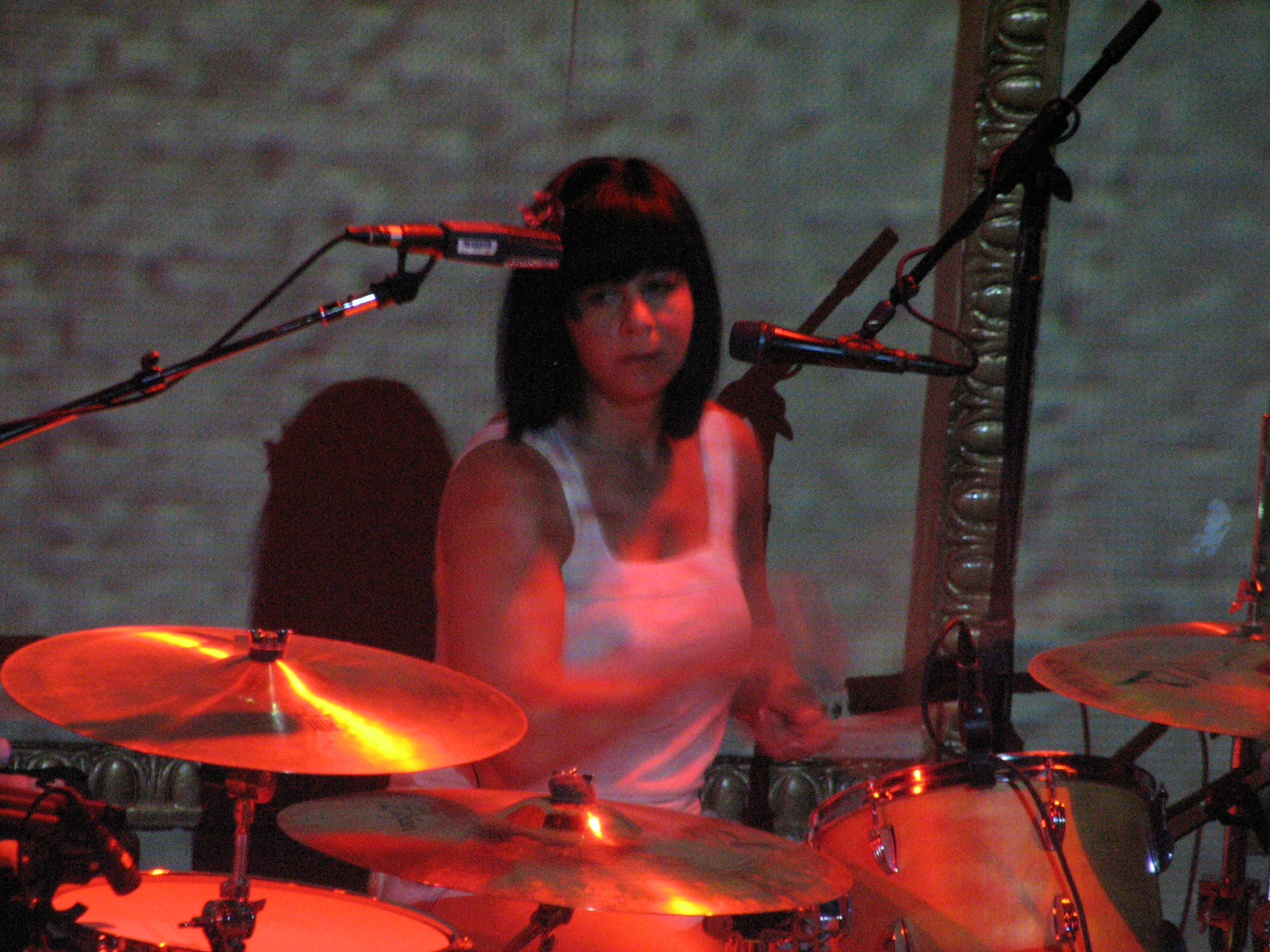 Bright Eyes / Janet Weiss at Town Hall 29-May-2007